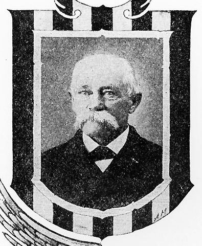 Quartermaster James Miller, United States Navy. Halftone image, copied from Deeds of Valor, Volume II, page 50, published by the Perrien-Keydel Company, Detroit, 1907. Quartermaster Miller was awarded the Medal of Honor for courageous behavior on board USS Marblehead during her engagement with a Confederate battery on John's Island, Stono River, South Carolina, 25 December 1863.